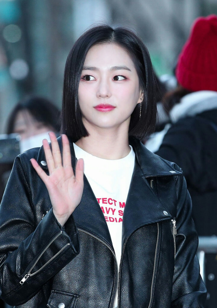 Jang Ye-eun going to Music Bank on March 2, 2018.